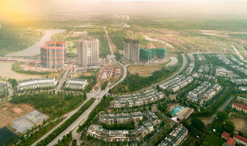 Ecopark Hung Yen